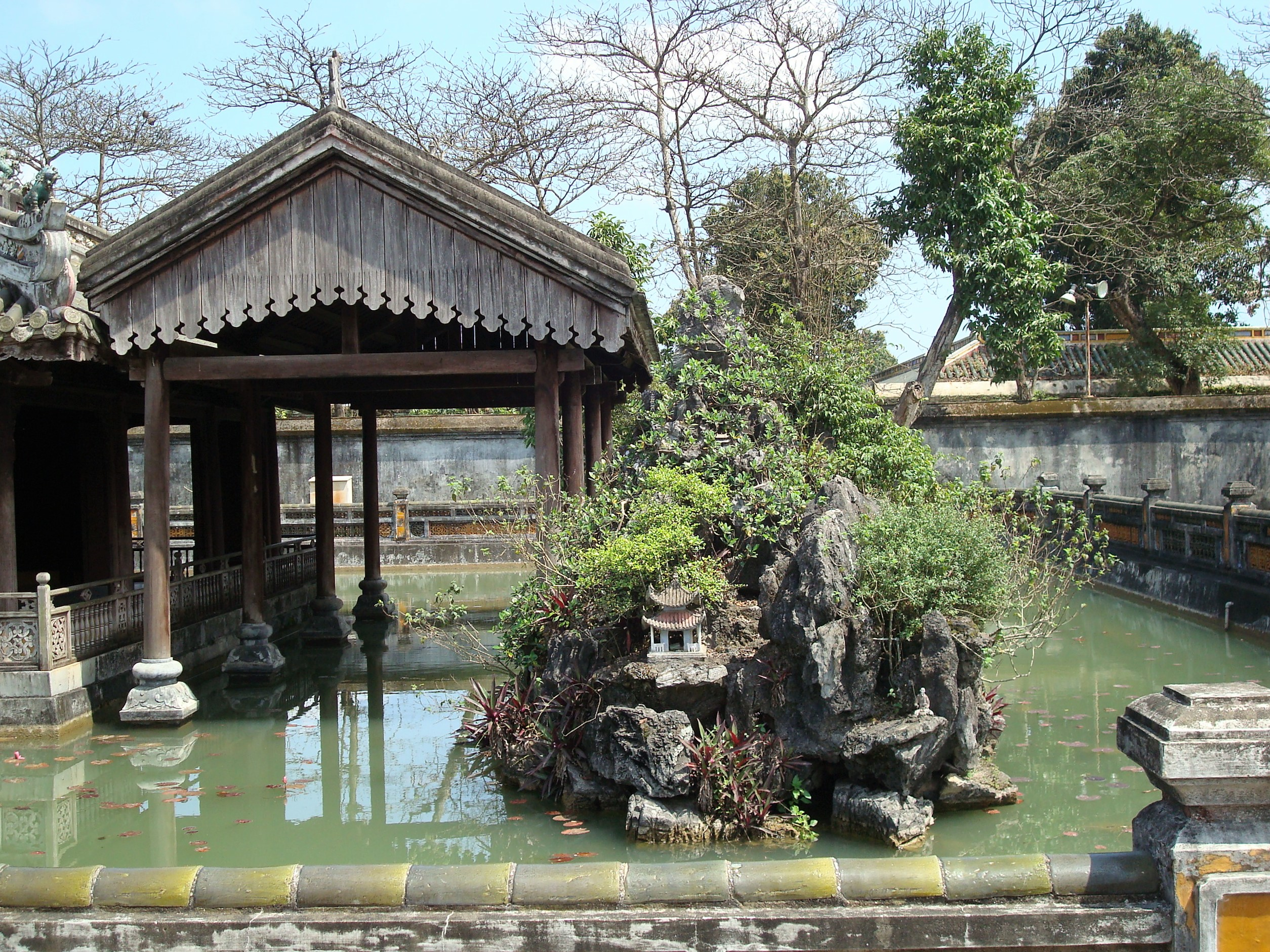 Diên Thọ palace with Hòn Non Bộ garden, at Imperial City